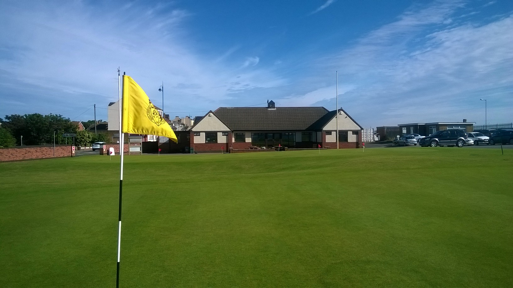 This file is intend for use on the wikipedia page entitled "Seaton Carew Golf Club"